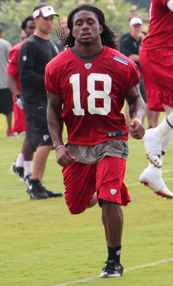 James Rodgers at Falcons training camp, 2013